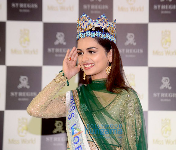 Manushi chhillar snapped at a press conference at St Regis Hotel in Mumbai.